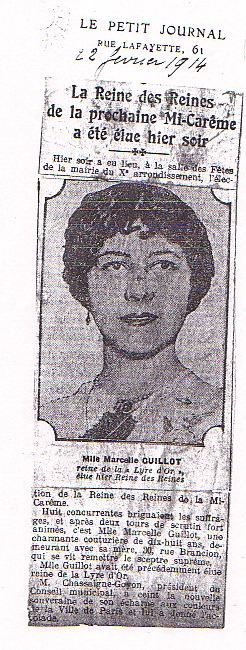 Announcing the election of the Queen of Queens Paris 1914.